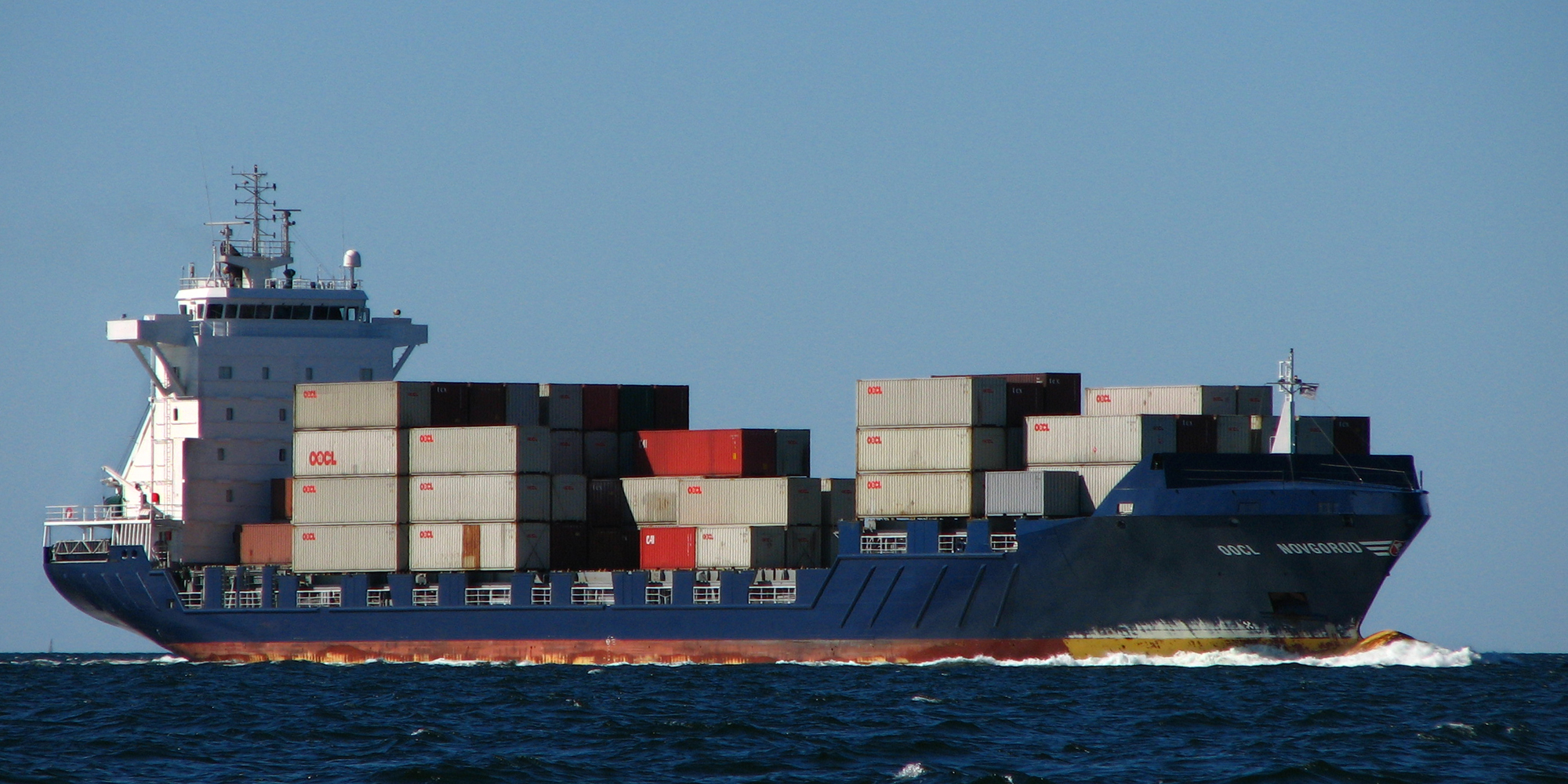 OOCL Novgorod northbound in the Baltic sea ooff the coast by Visby, Gotland, Sweden IMO Number: 9299513